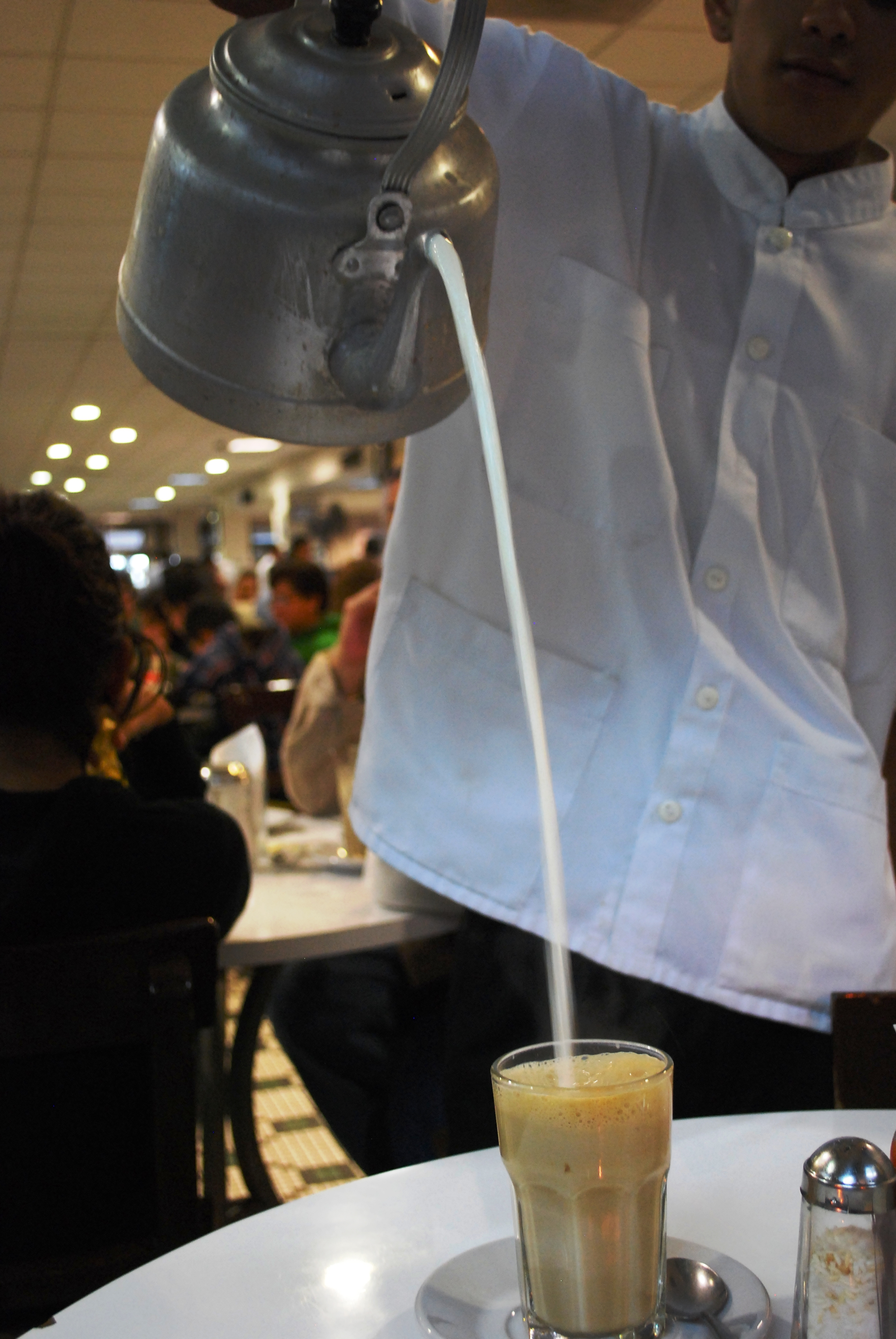 Pouring steamed milk into coffee at the Cafe la Parroquia in Veracruz, Mexico